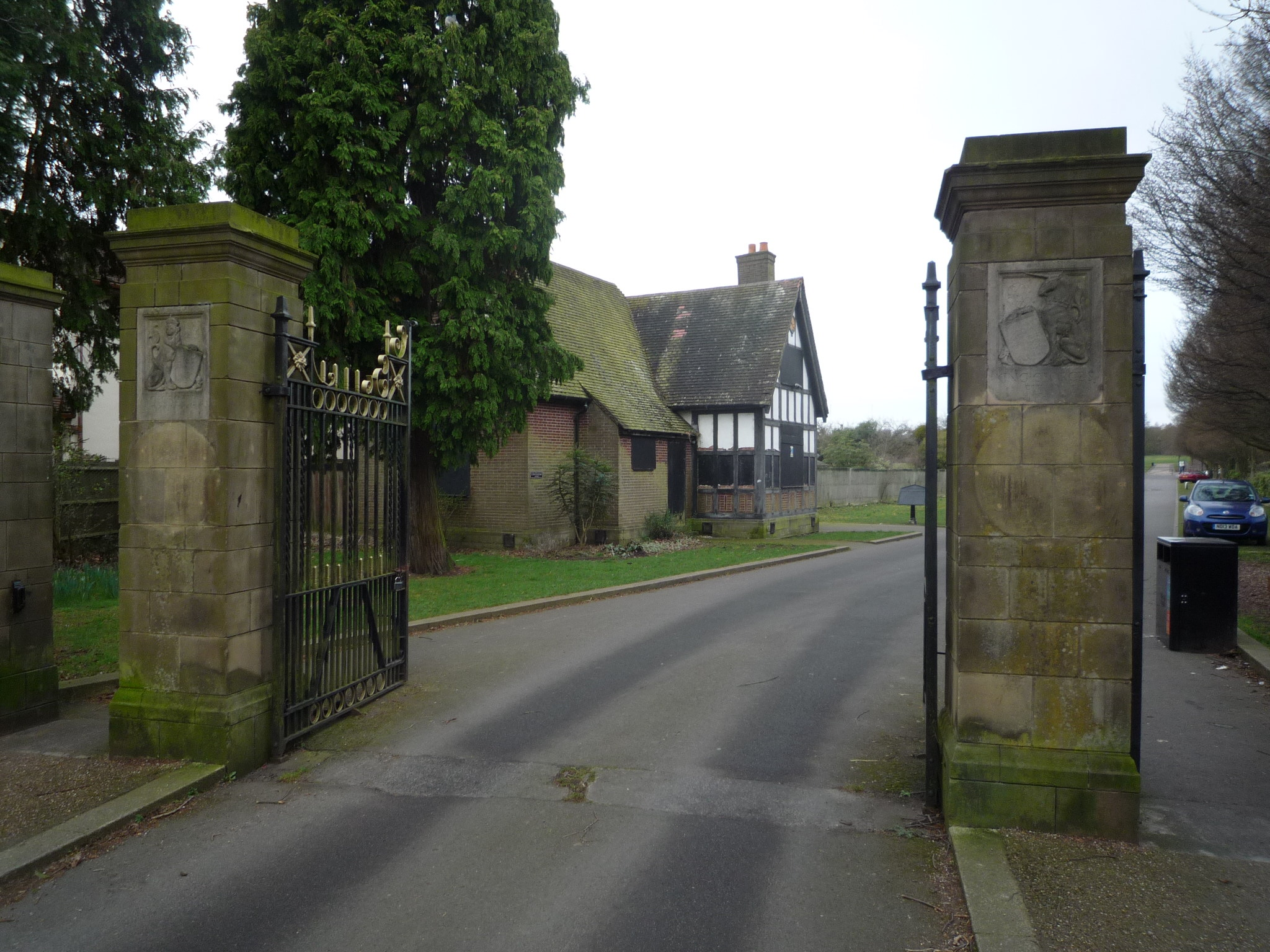 The gates of the King George V Memorial Playing Fields, Stafford Road, Bloxwich, Walsall, England. The road through the gates is called William Wiggin Avenue in memory of the man who donated some of land for these fields and built the lodge in the background. See this article in the Bloxwich Telegraph. In this photo of the same subject there are big "5" speed limits signs immediately below each plaque. The trace of these signs can be seen in the above photo.